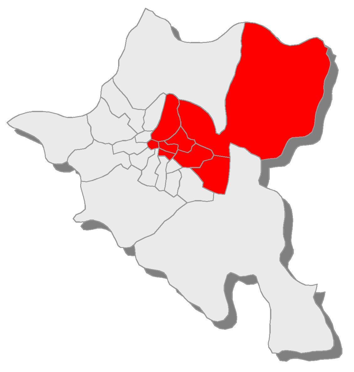 Map of 24 electoral region in Sofia.